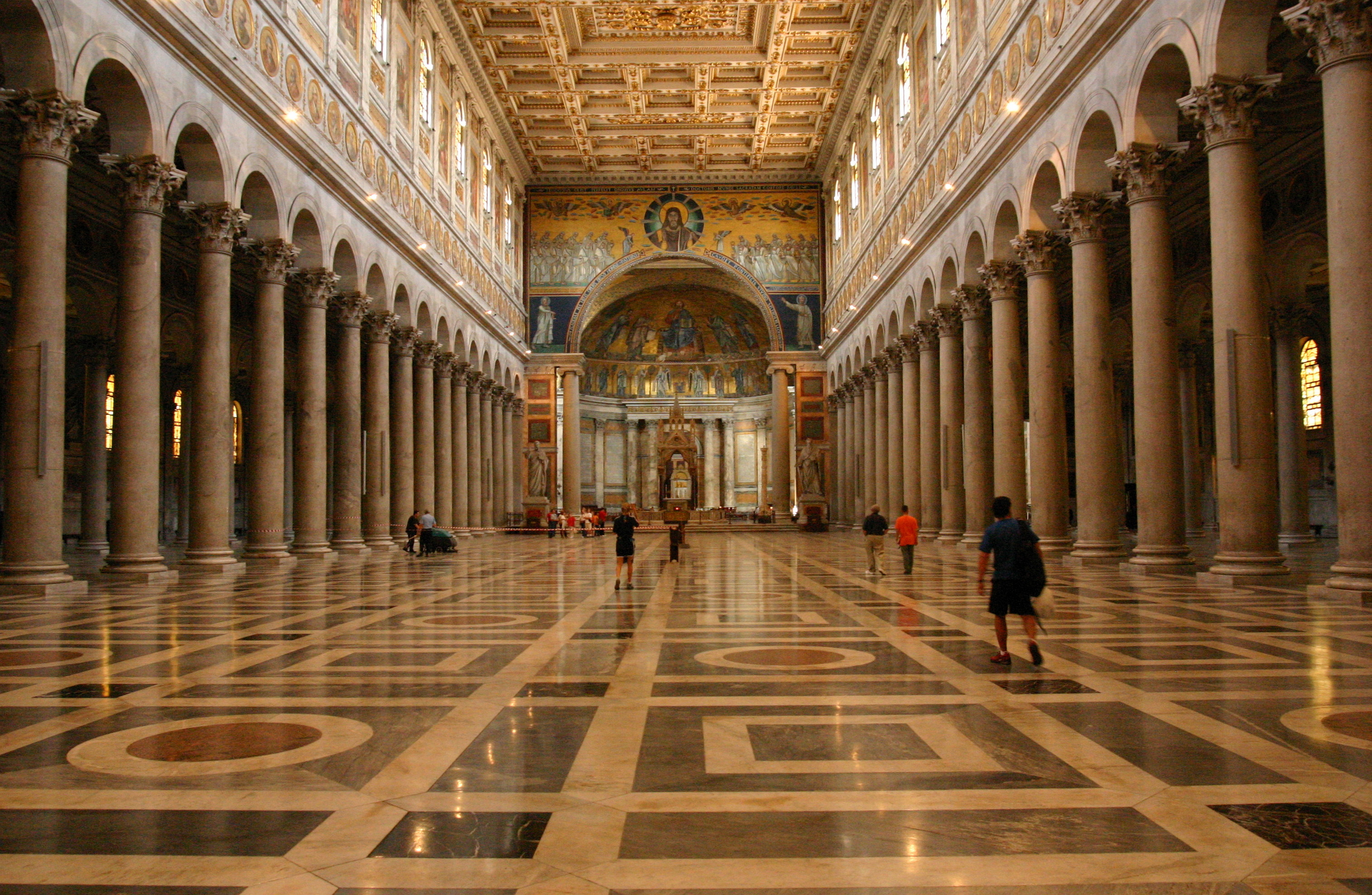 Saint Pauls' Church (at Rome) main hall